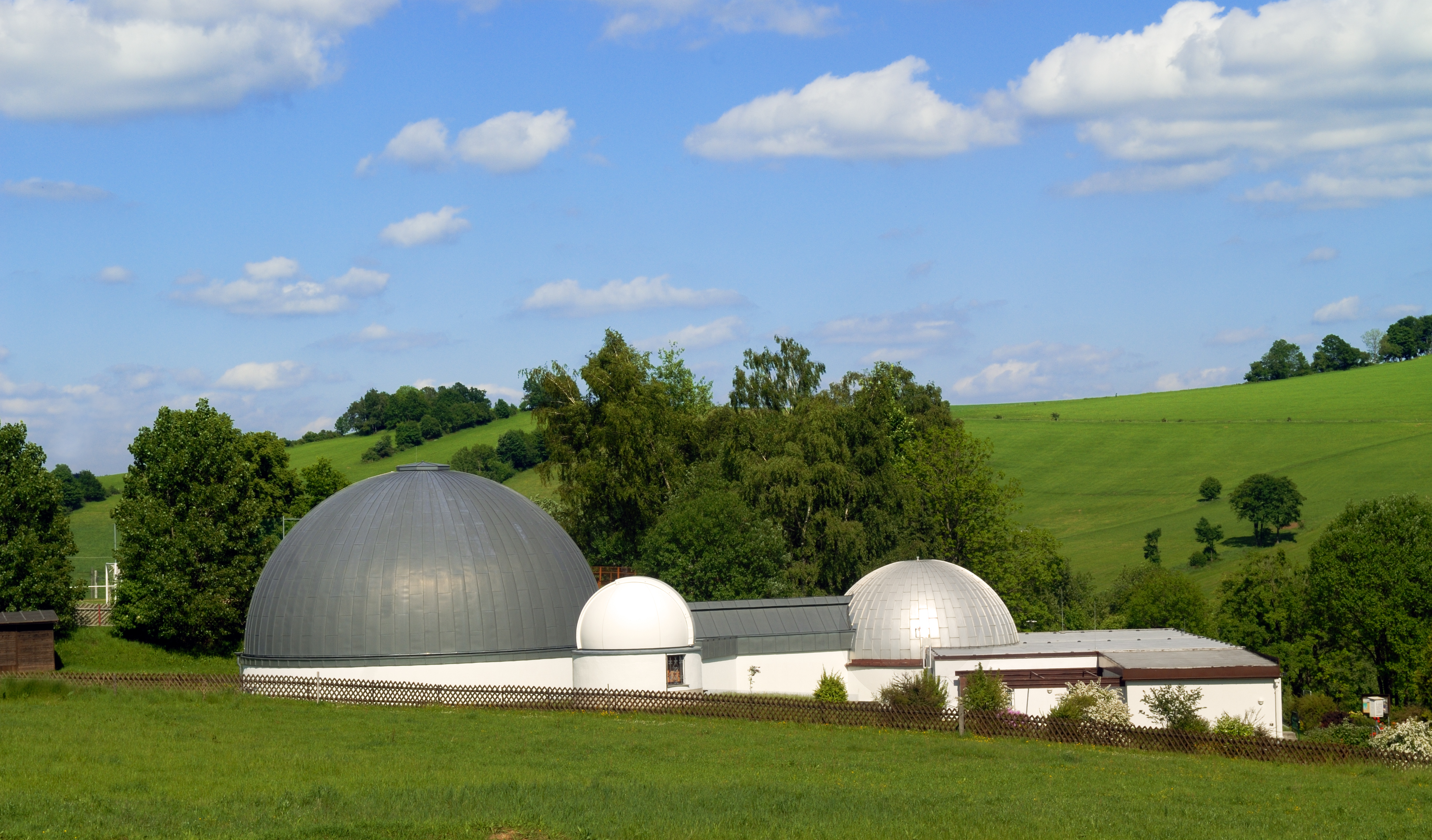 This image shows the observatory in Drebach, Saxony, Germany.